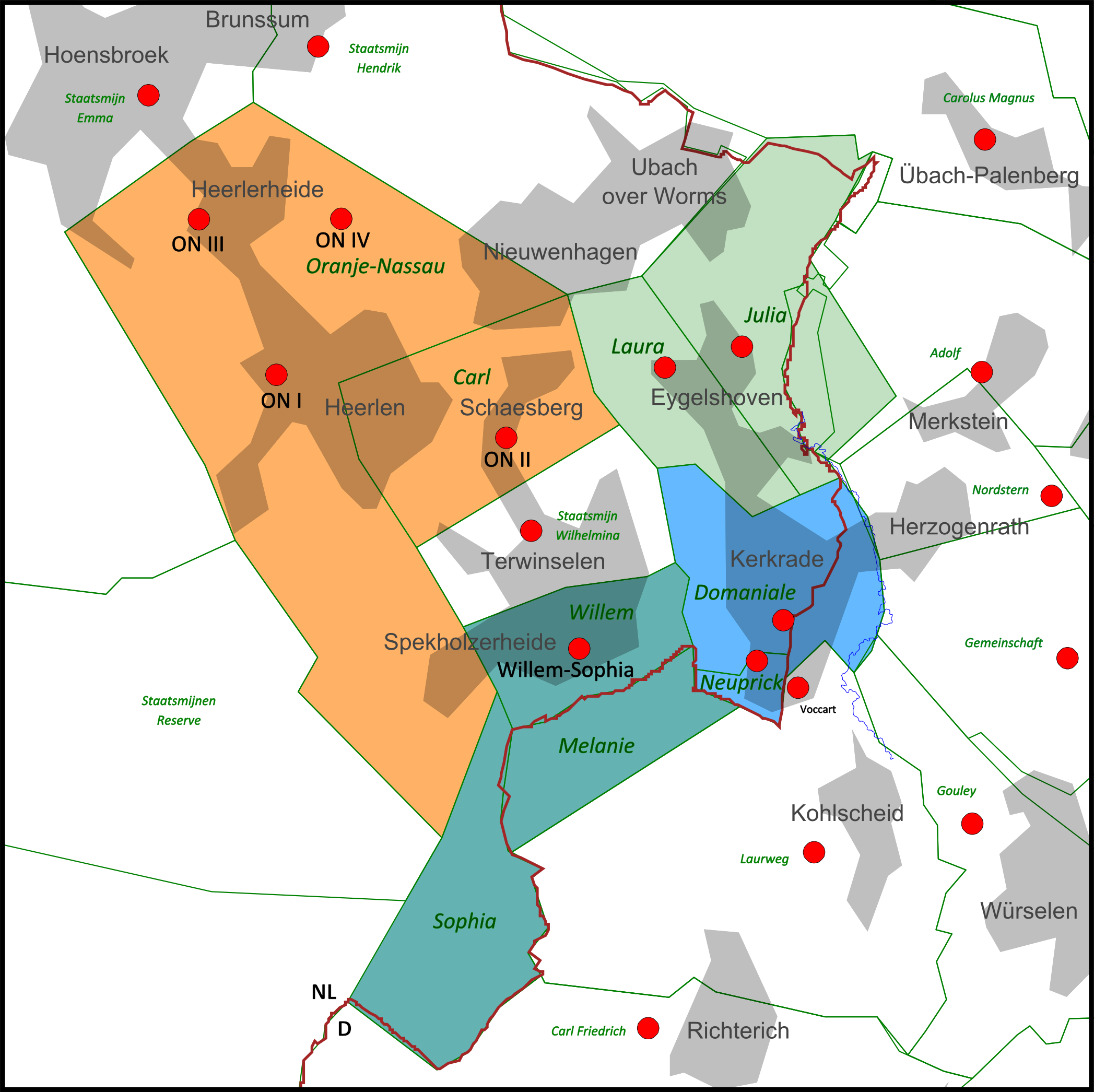 Map of mining permit areas of privately owned coal mines, Limburg, The Netherlands